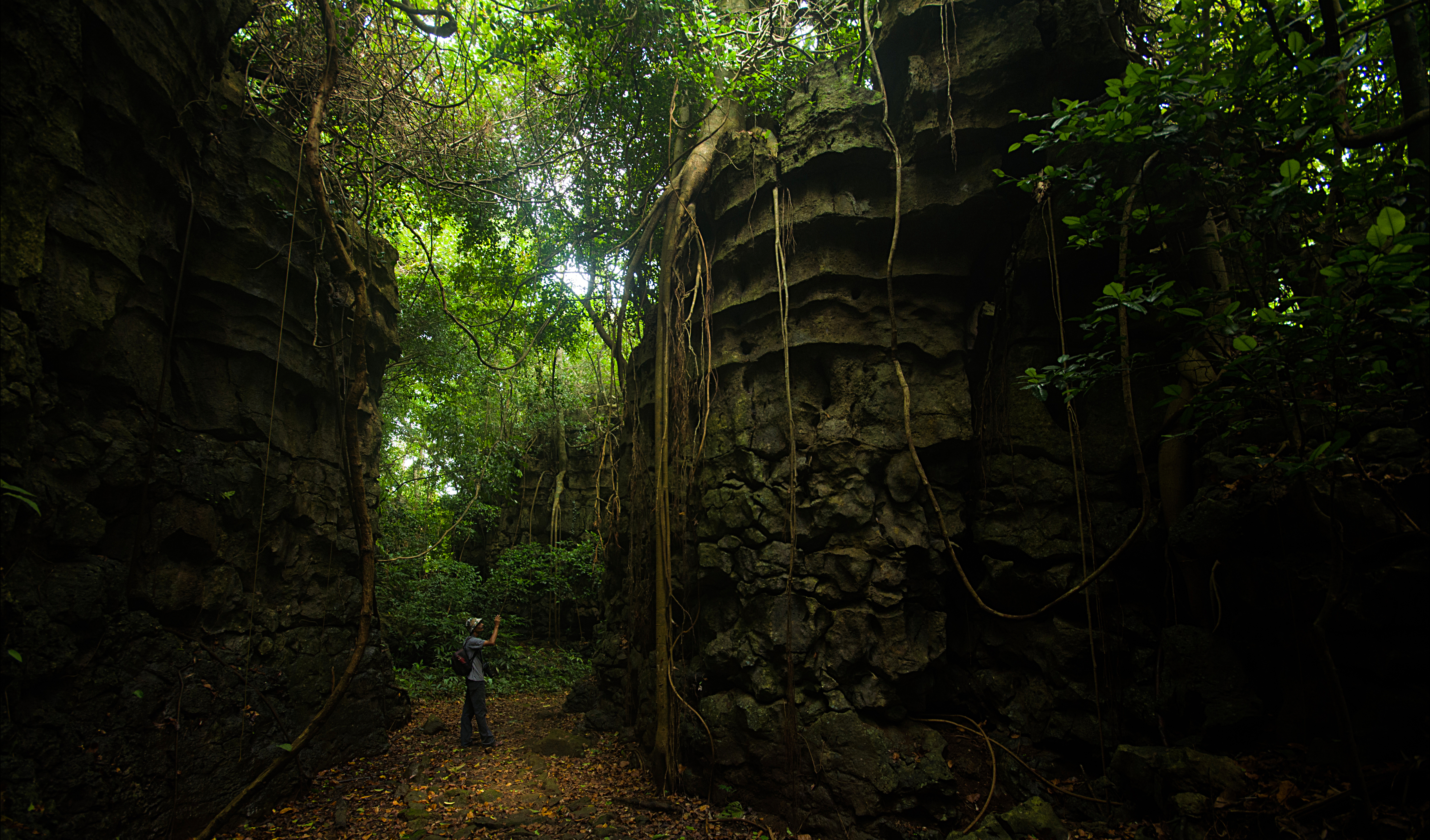 A geophysicist examines the limes stone rocks at Siju Wildlife Sanctuary In Meghalaya. Siju is known for its lime stone rocks and large lime stone caves. These large limestone rocks were formed by erosion